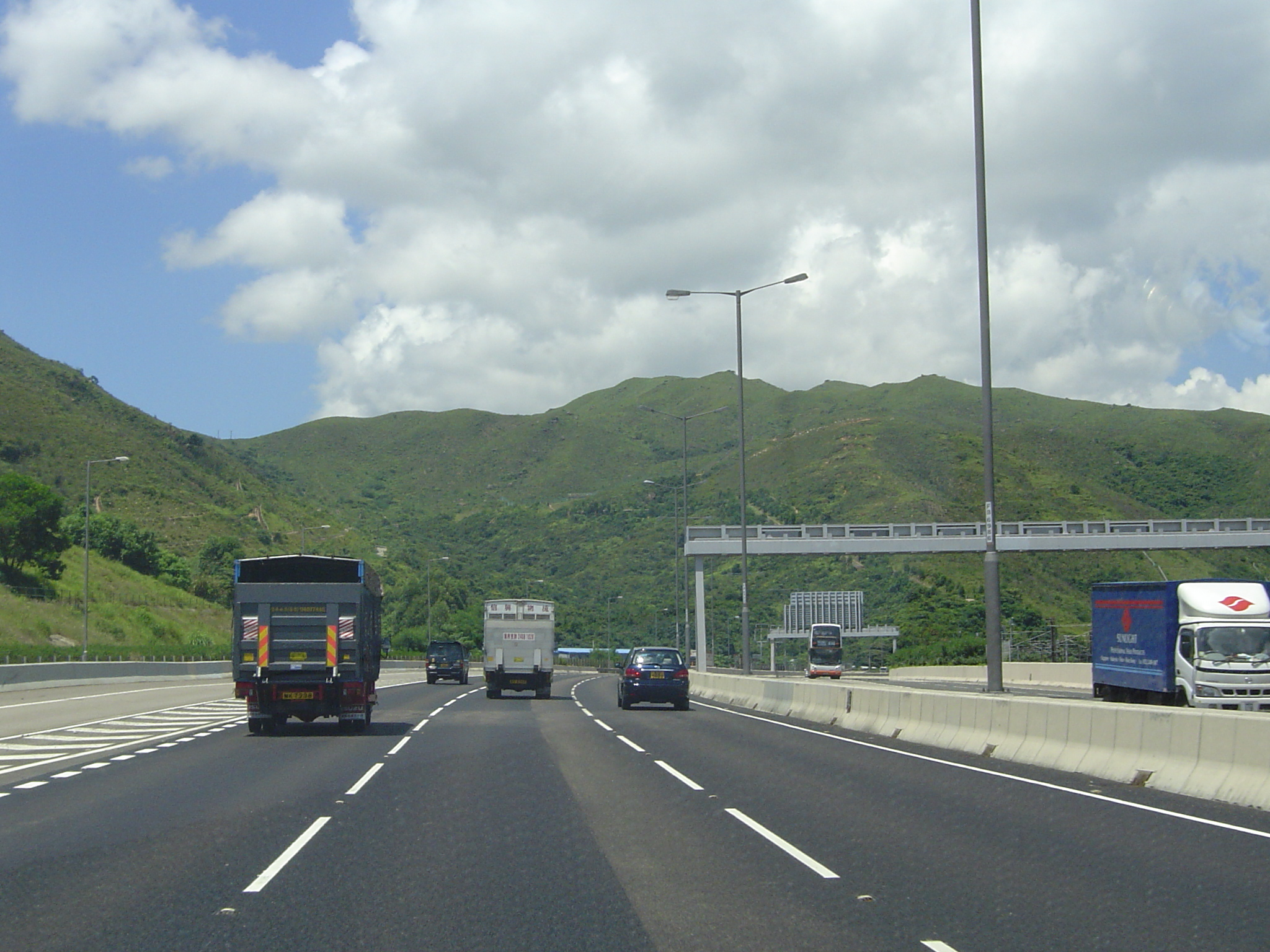 North Lantau Highway, an expressway in Hong Kong